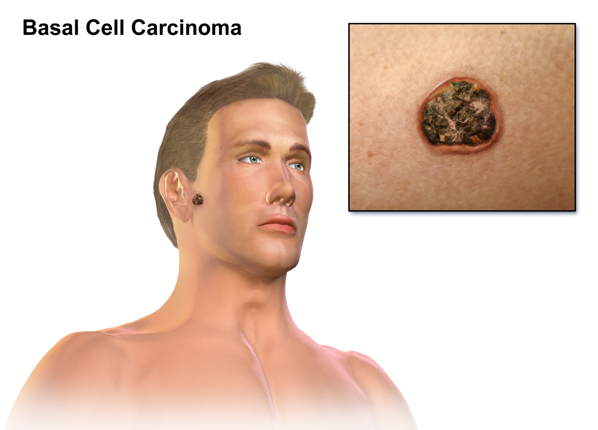 Basal Cell Carcinoma. See a full animation of this medical topic.